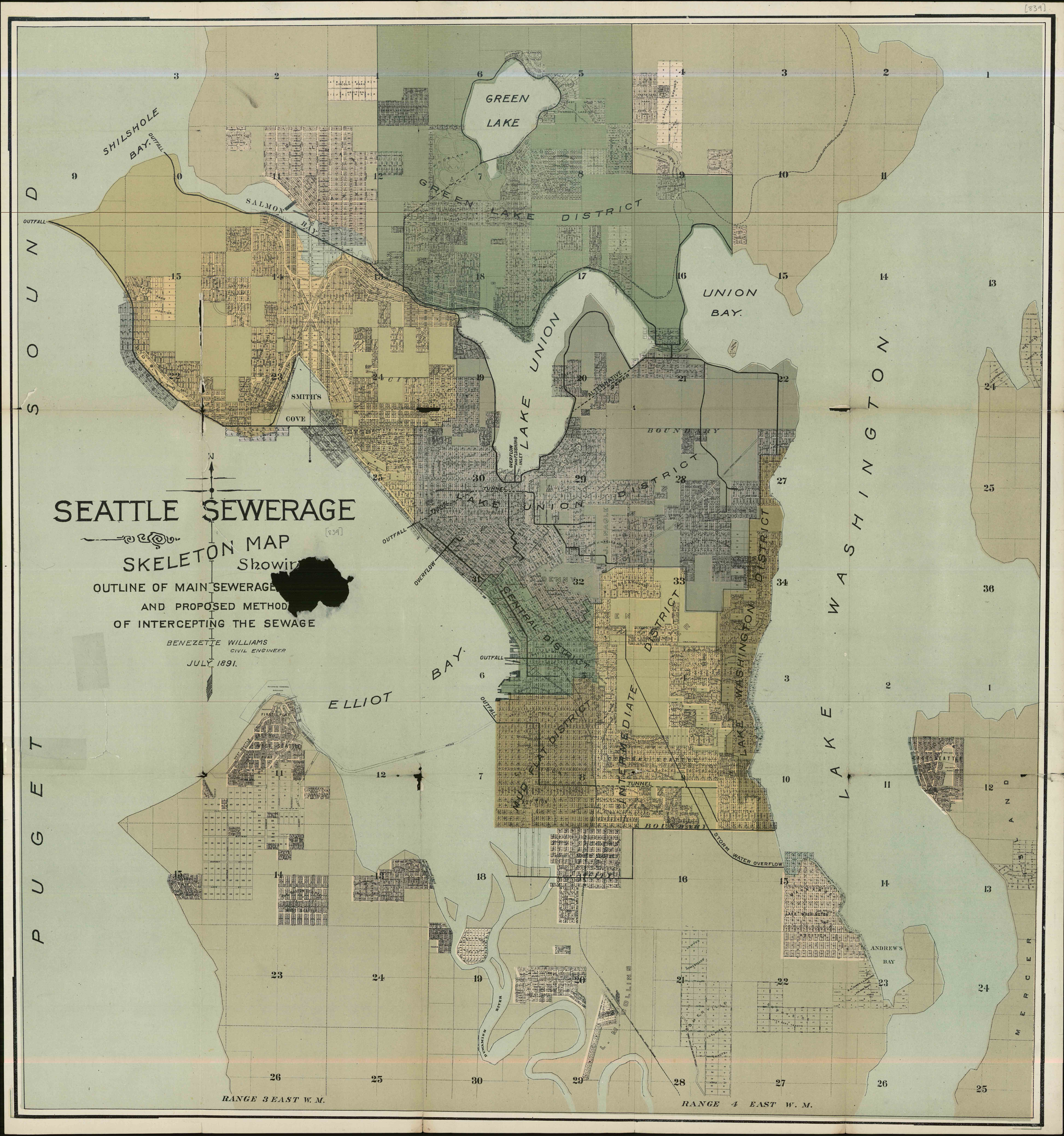 Map of Seattle sewer districts from Appendix to 1894 annual report of Reginald H. Thomson, City Engineer. Map 839, Seattle Municipal Archives.